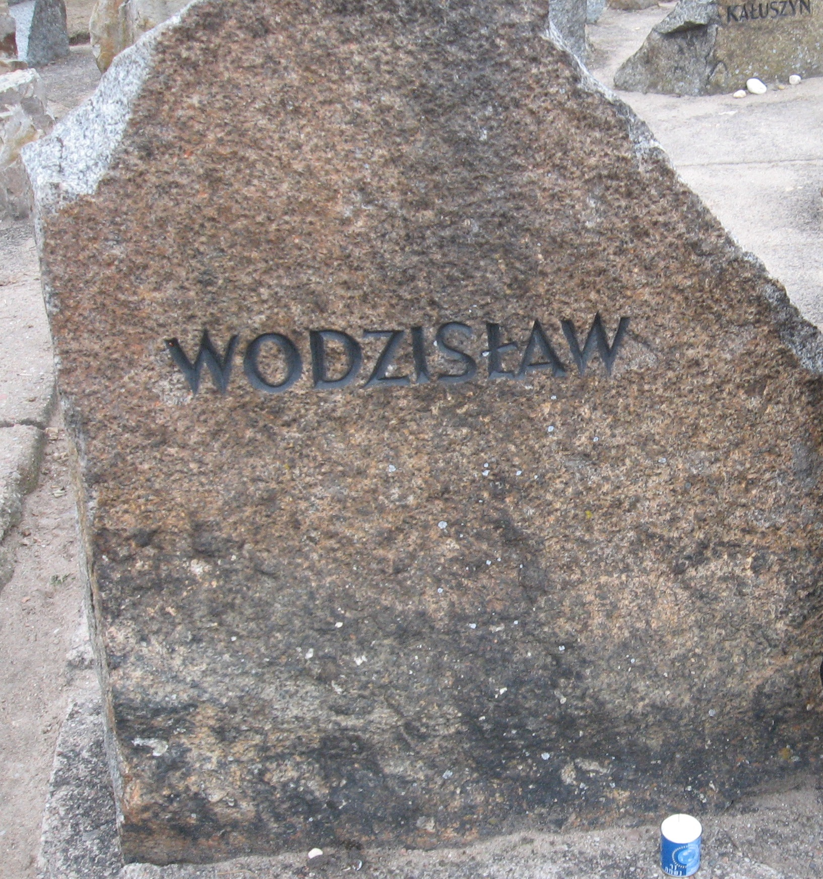 memorial monument of the poland jewish town Wodzislaw, in Treblinka extermination camp.